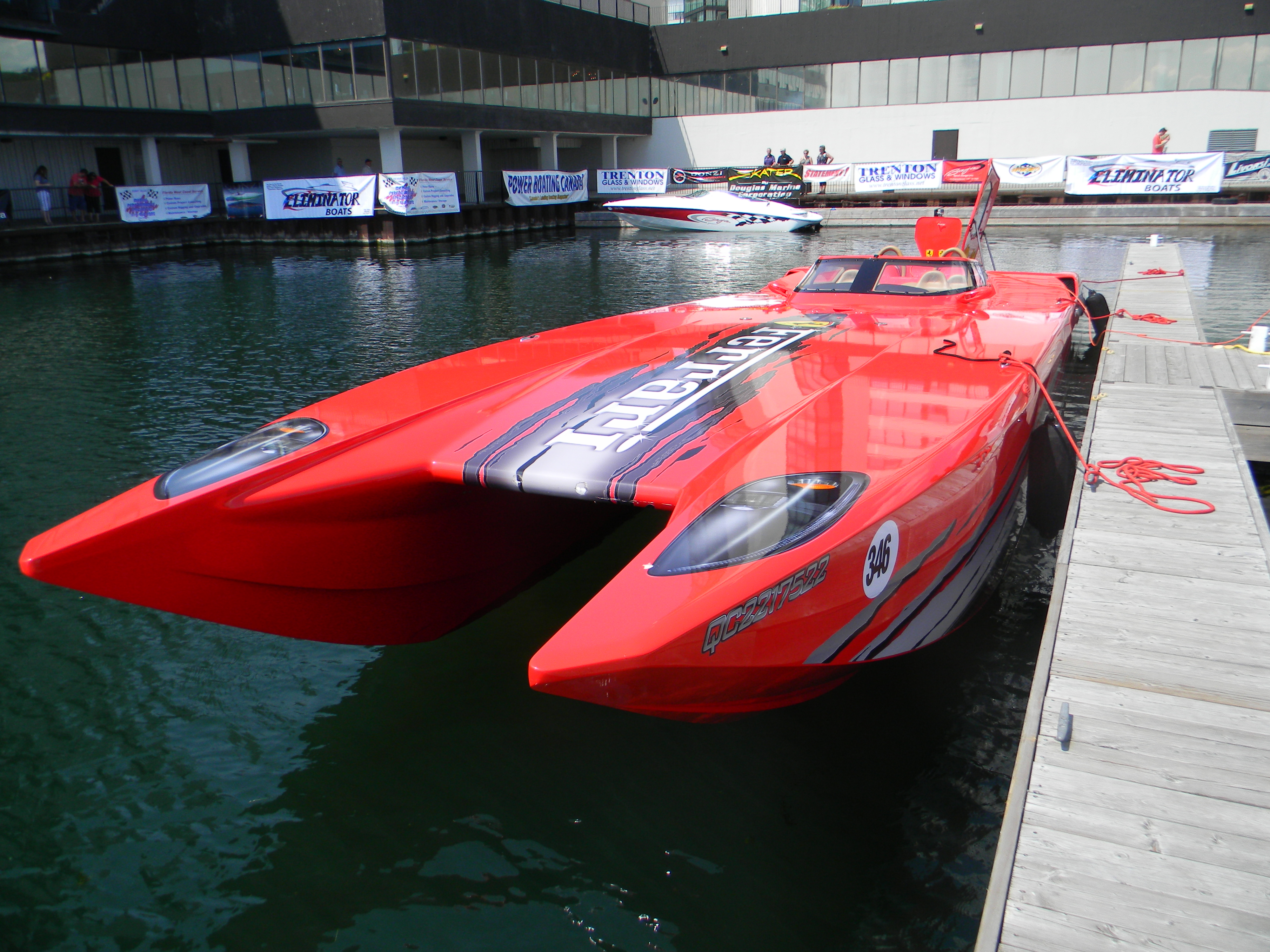 Speed Boat in Harbor of Kingston Ontario Canada